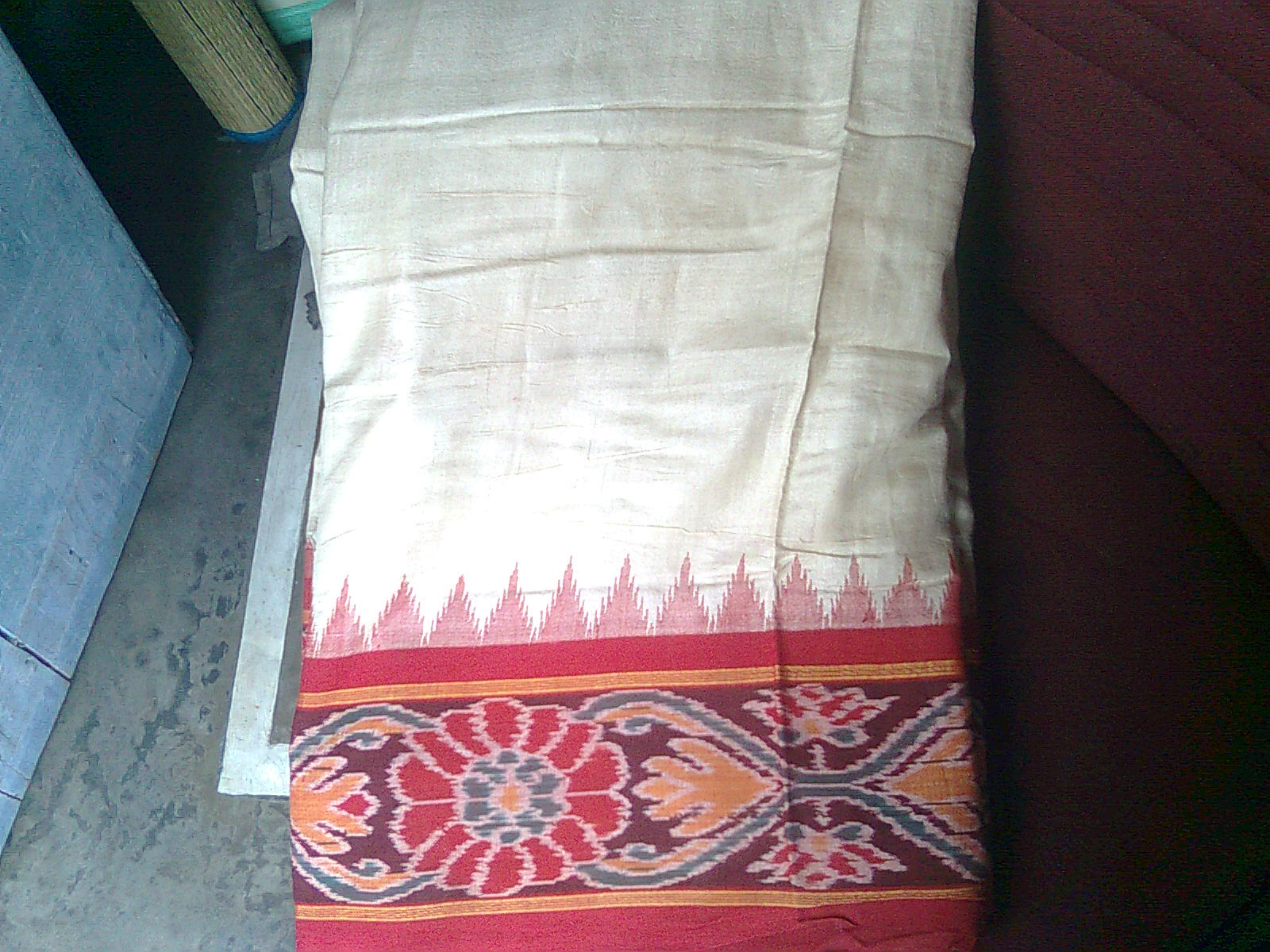 sambalpuri saree in state of Orissa